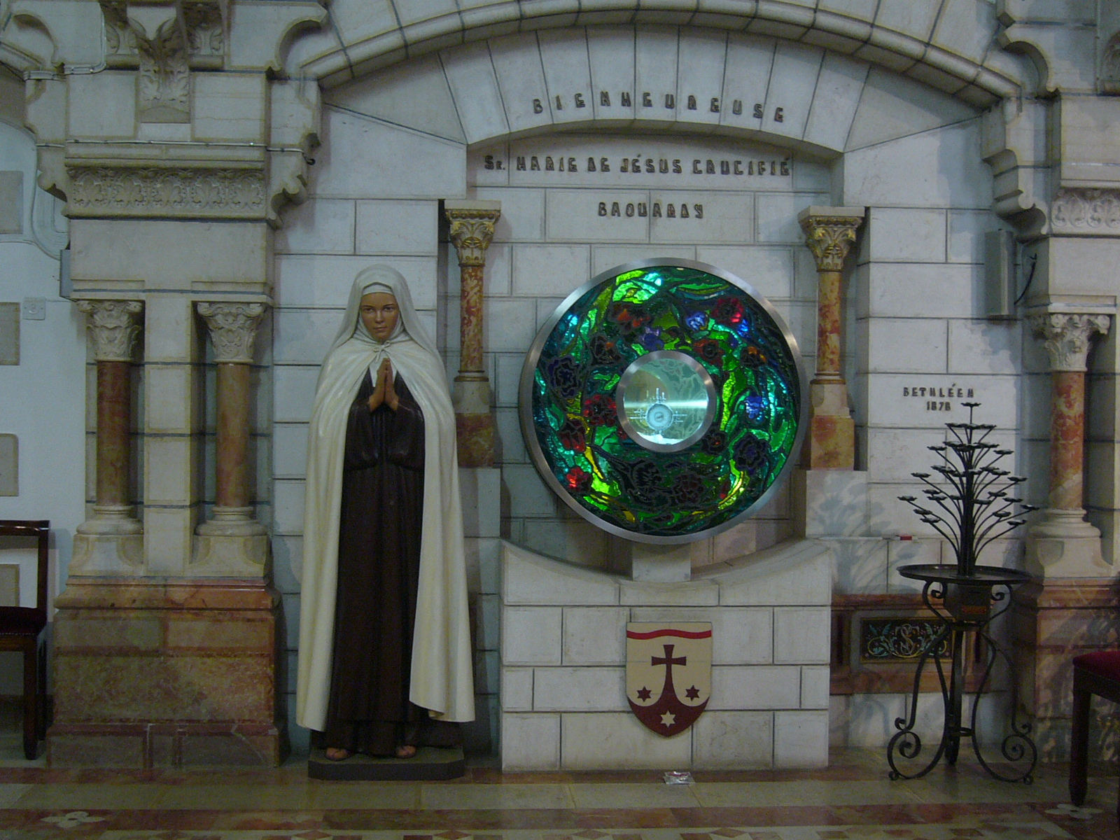 The sepulchre of Miriam Boauardy